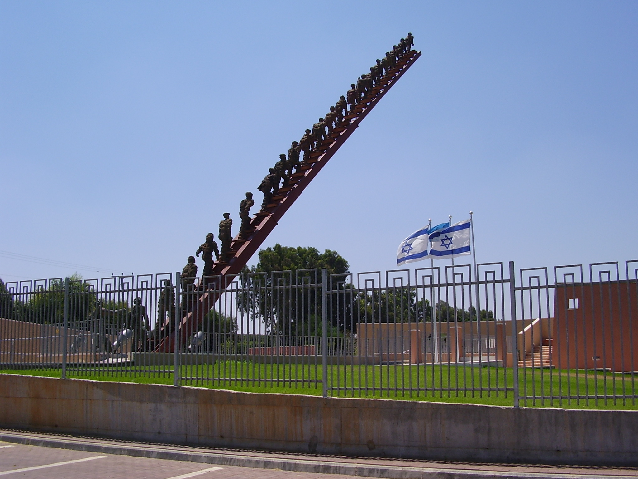 beit lid memorial, israel